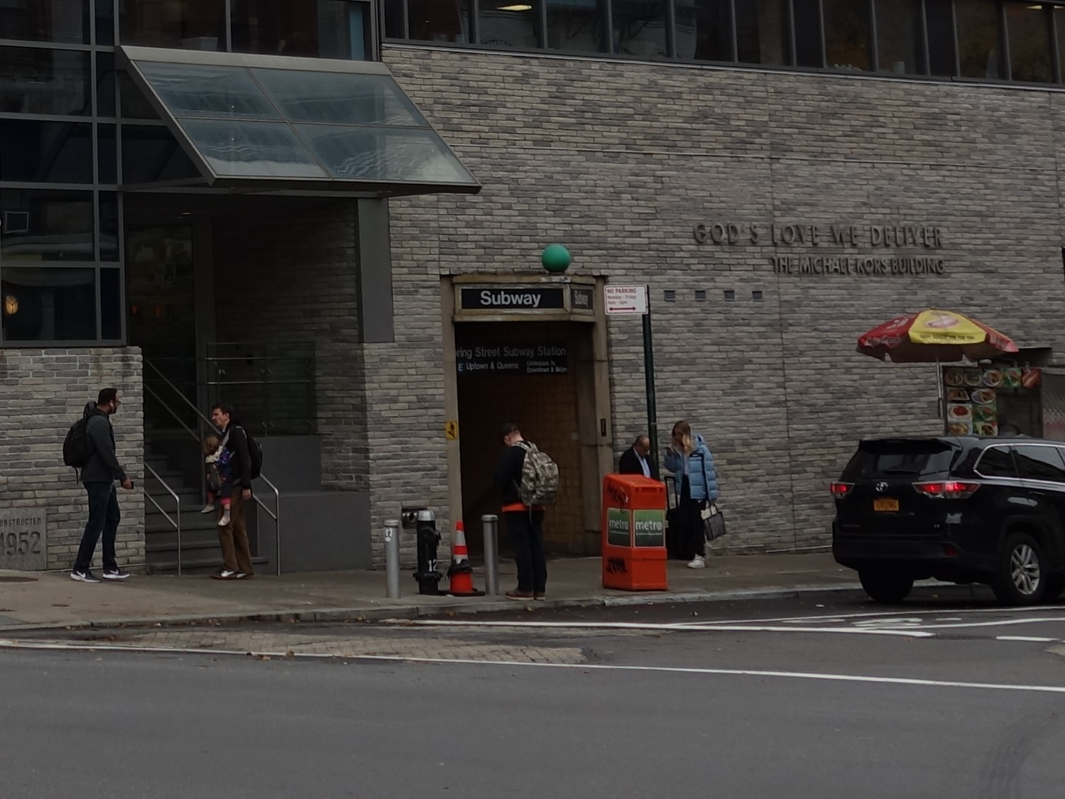 The entrance to the Spring Street IND subway station inside the Michael Kors Building (166 Sixth Avenue), at the northeast corner of 6th Avenue and Spring Street in SoHo / Hudson Square, Manhattan.